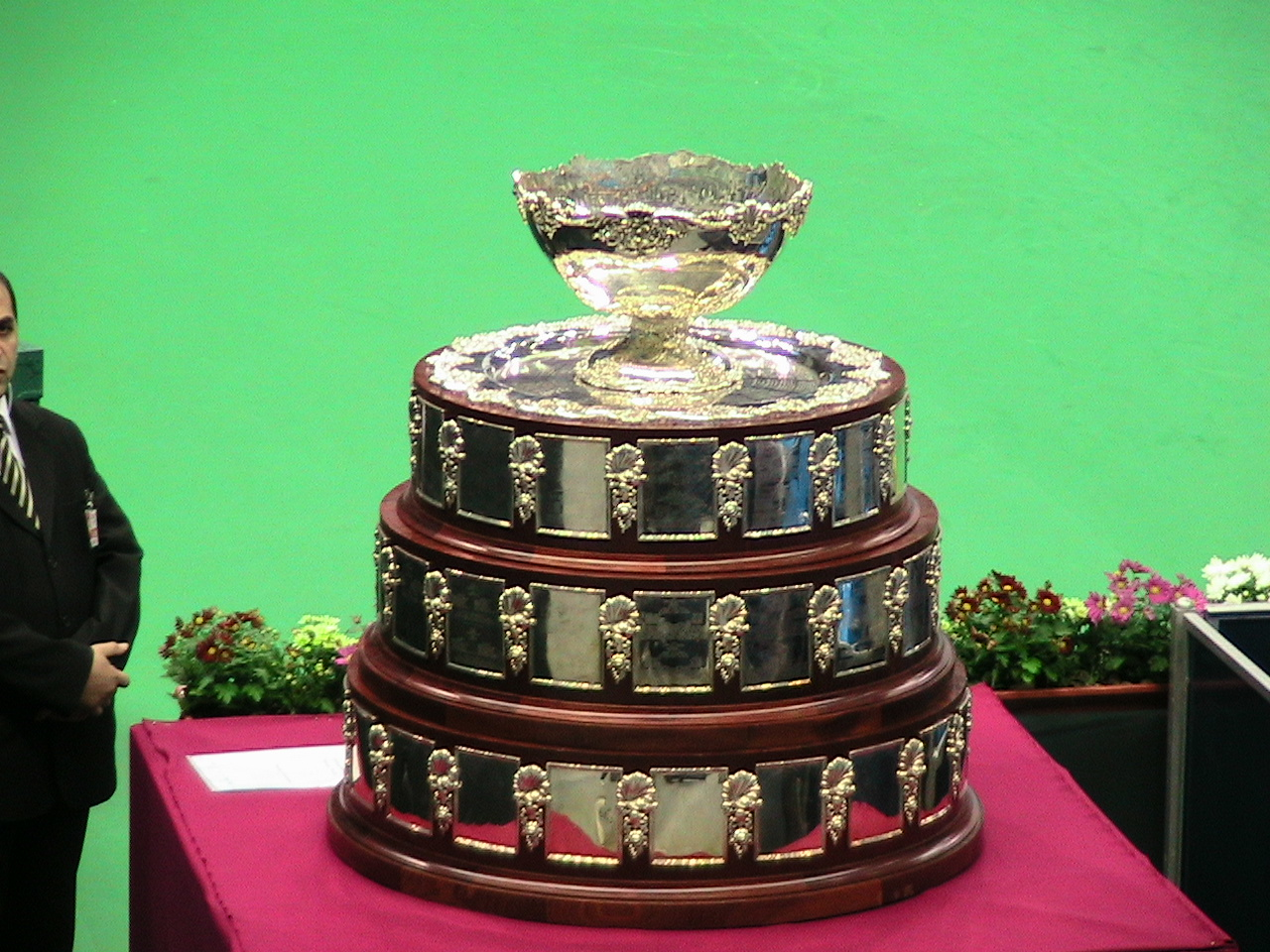 Davis Cup in Moscow at final Russia-Argentina, 1st day